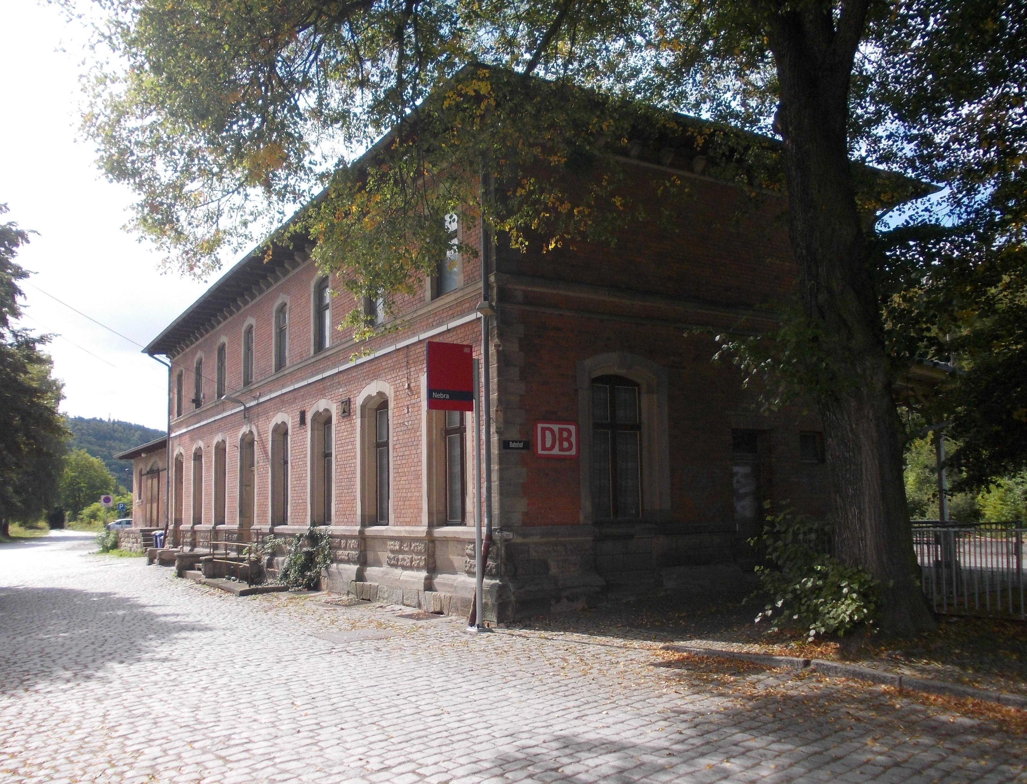 Nebra train station (district: Burgenlandkreis, Saxony-Anhalt) on the Unstrut Valley railway line